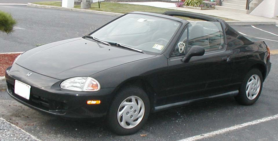 1993-1997 Honda Civic del Sol (base version), photographed in USA.